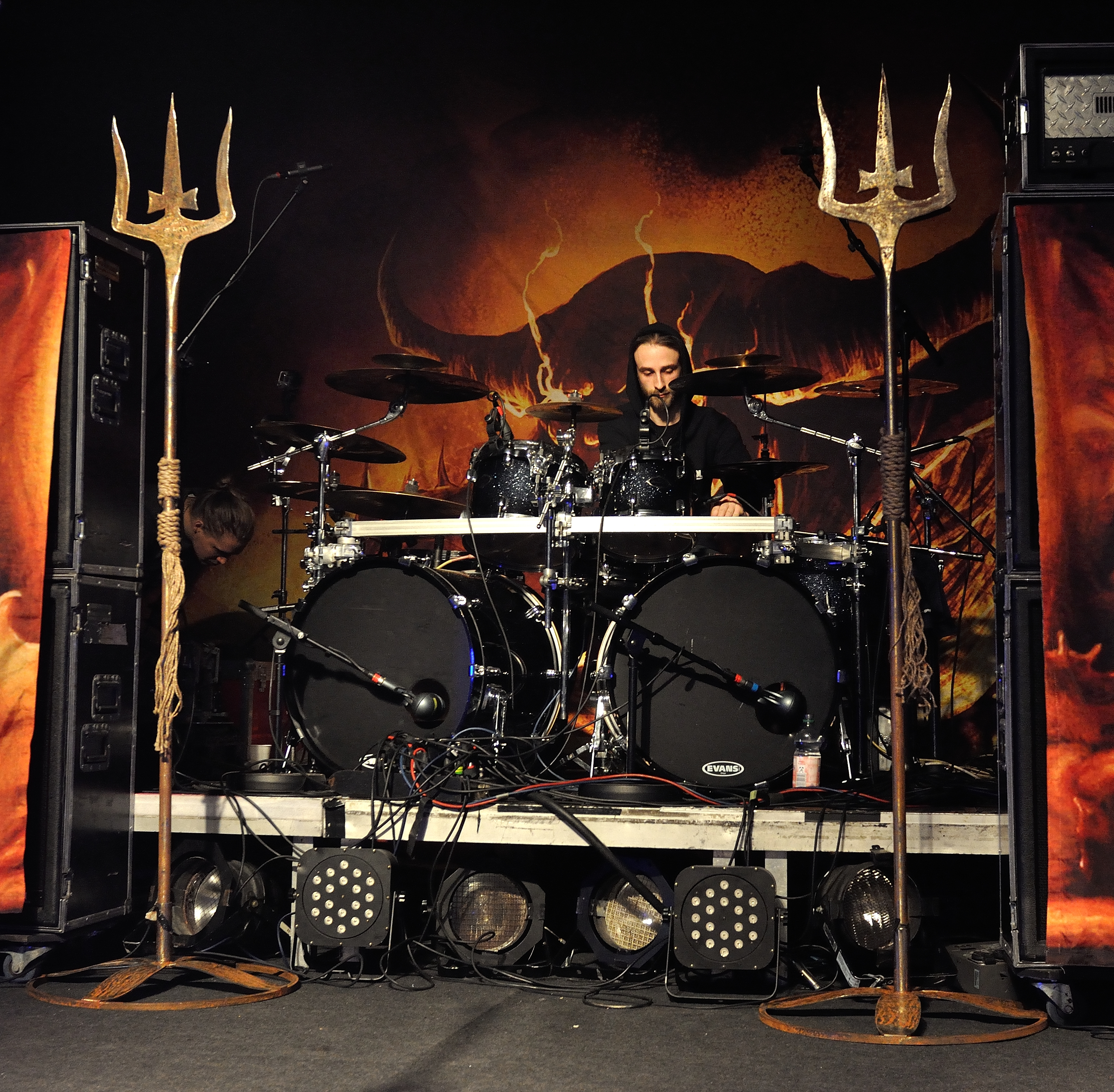 Vader at Hatefest 2015 in Berlin.